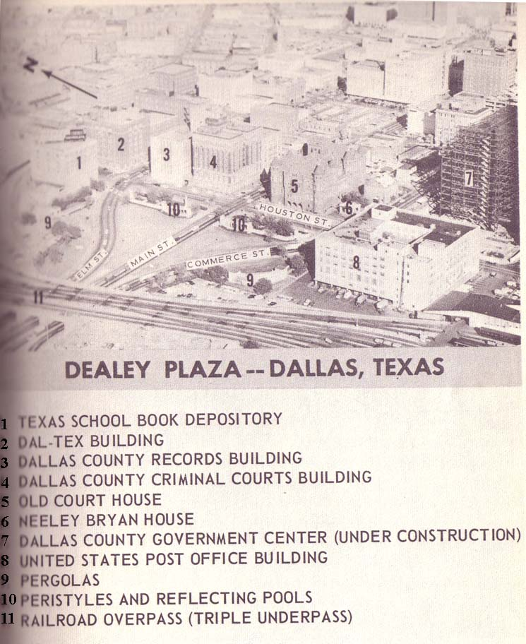 Picture of Dealey Plaza in downtown Dallas, Texas (USA) Warren Commission exhibit #876